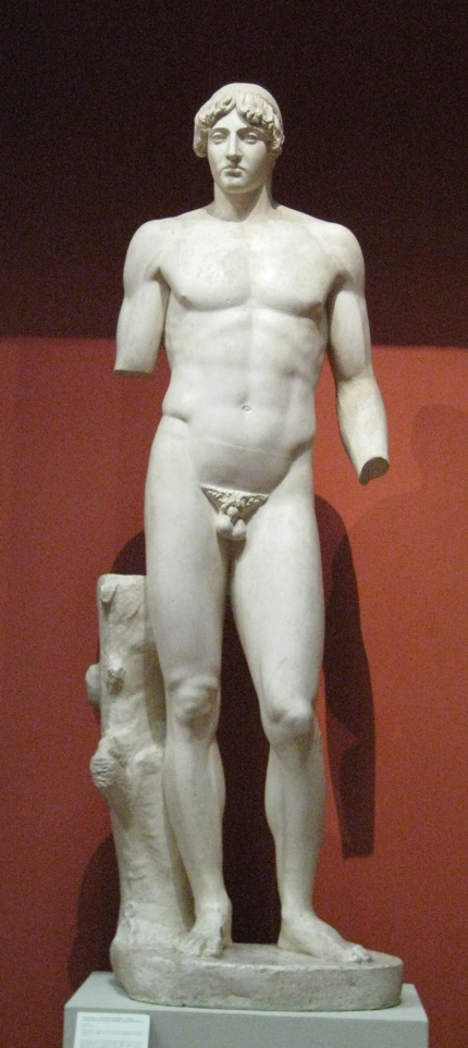 Choisel-Gouffier Apollo, British Museum. Plaster cast in Pushkin Museum, Moscow